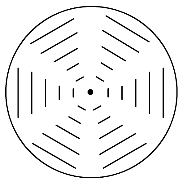 Top view on a double twist cylinder formed by a chiral (cholesteric) material.